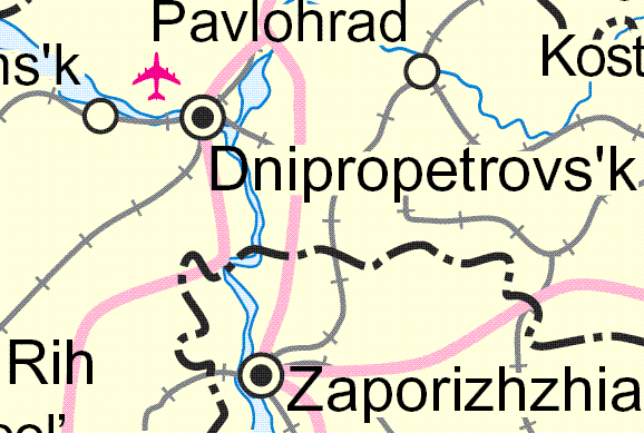 Map of Dnieper Reservoir, Ukraine Adapted from